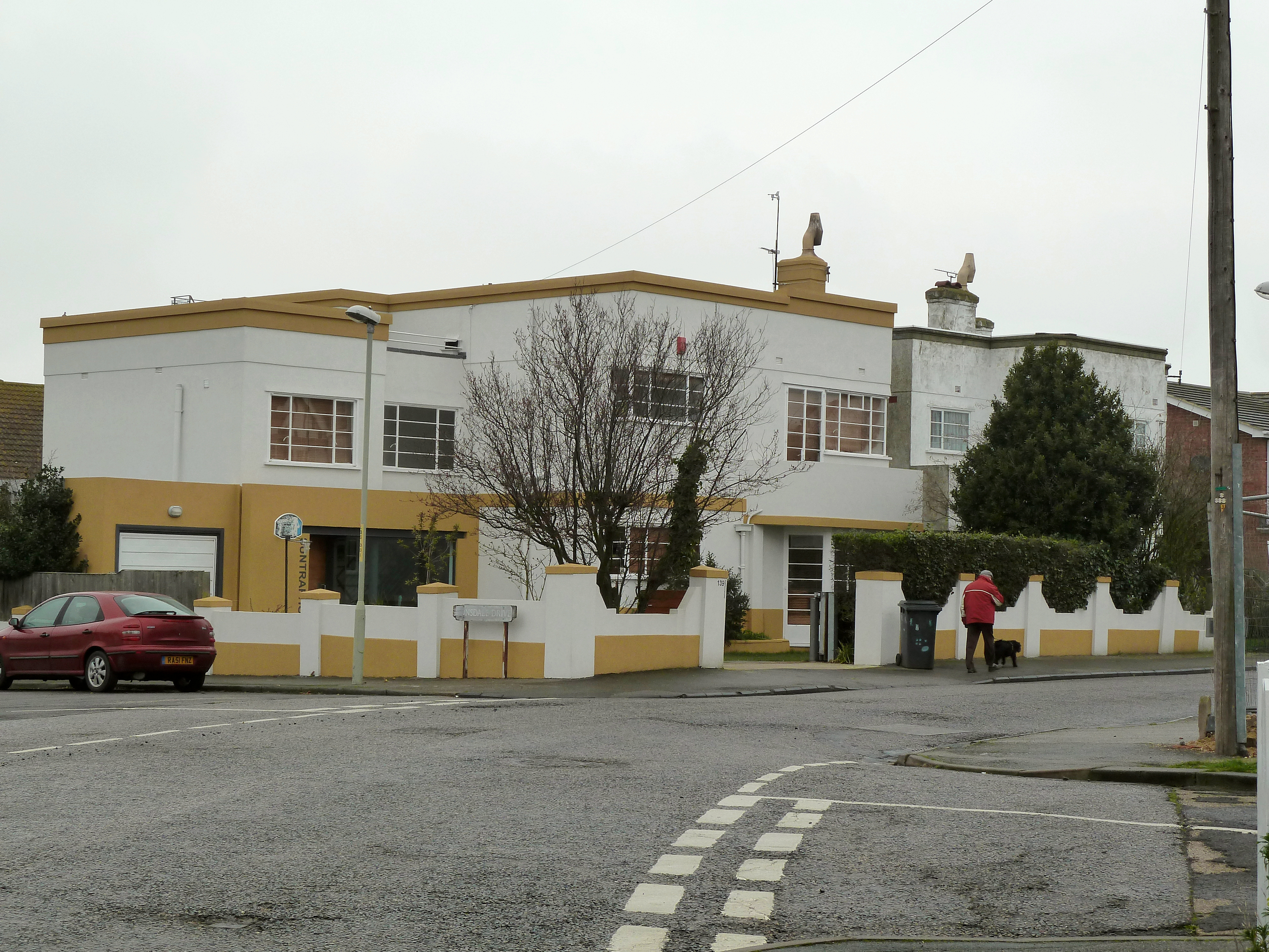 Numbers 139 and 141, Grand Drive, Herne Bay, Kent, England. These two Art Deco houses were built next to Mayfair Court in 1934-1935 by Lydia Cecilia Hill. She was a favourite of Ibrahim, Sultan of Johore.